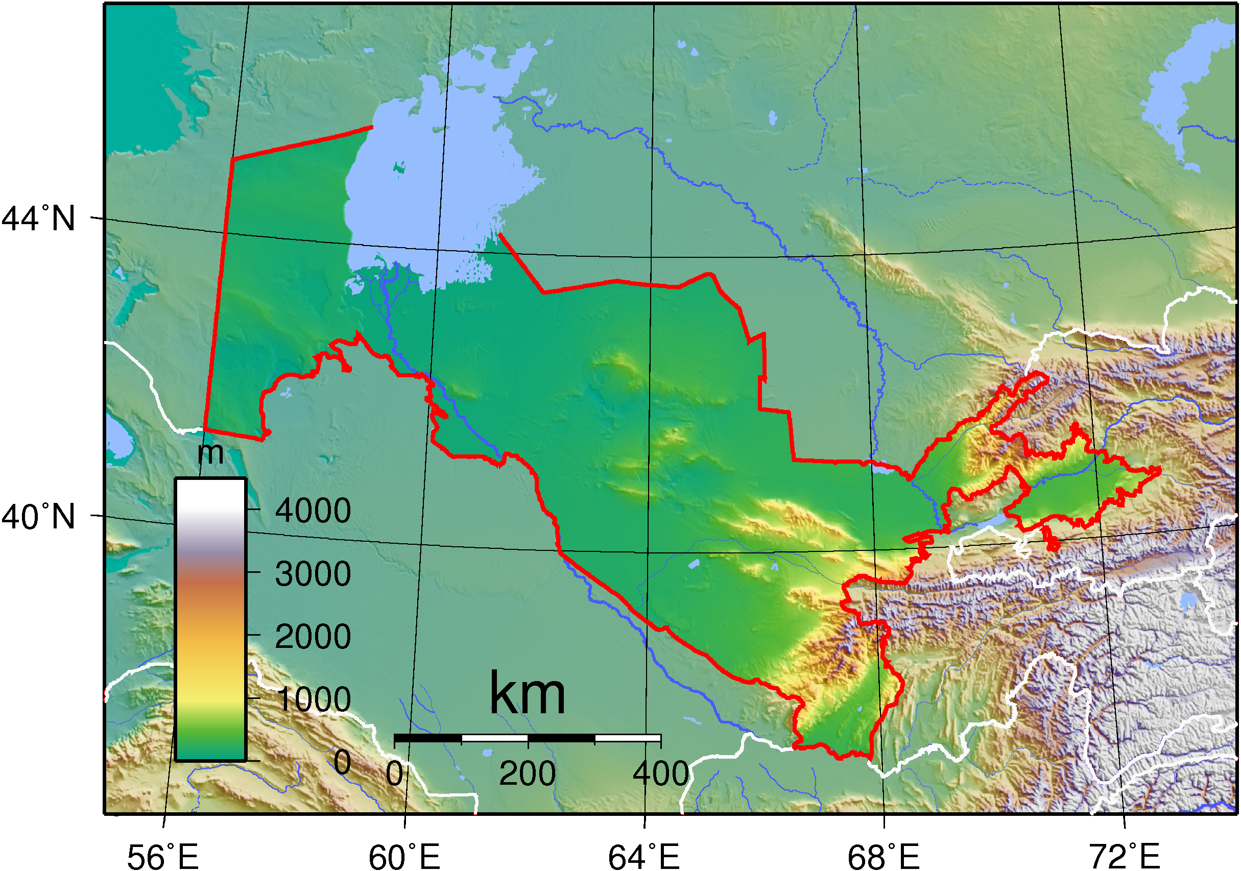 Topographic map of Uzbekistan. Created with GMT from SRTM data.